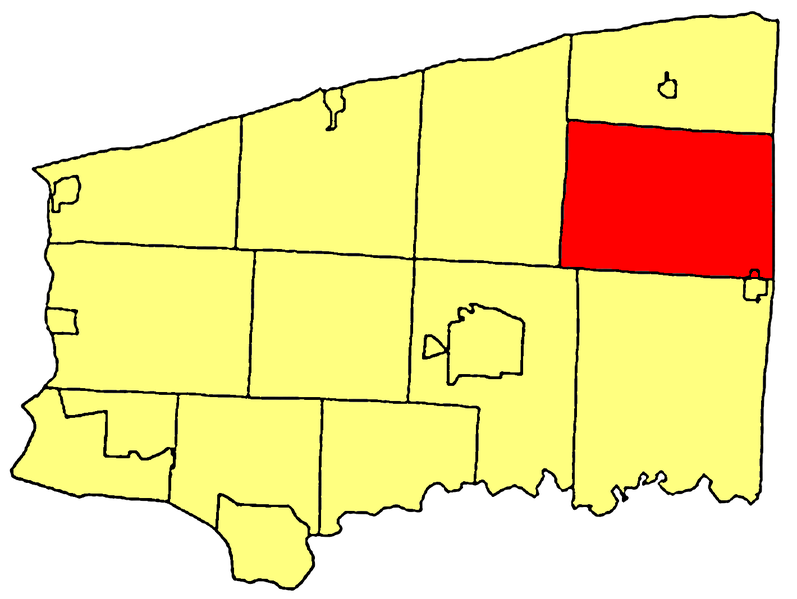 Location of the municipality in Niagara County, New York.